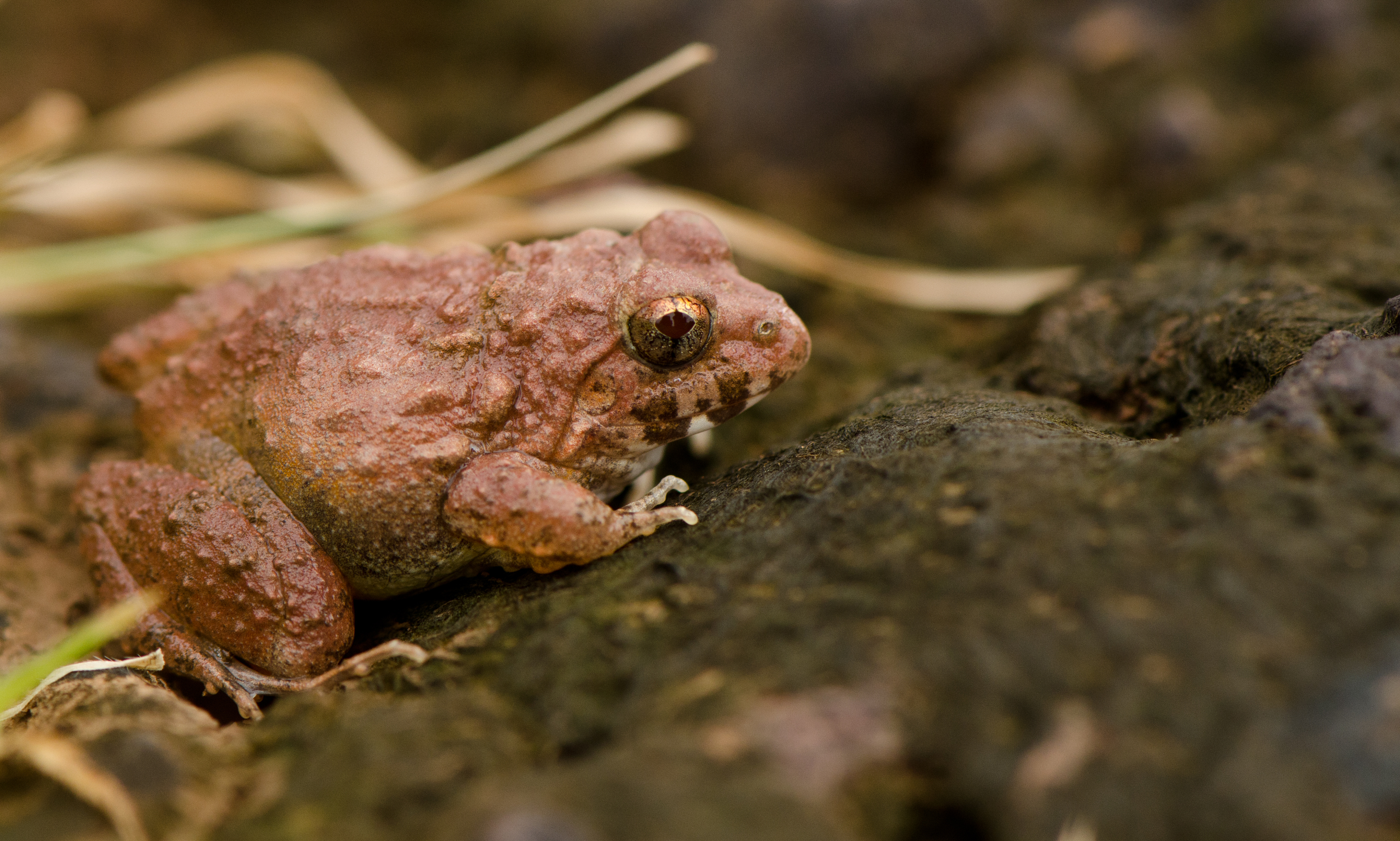 Zakerana rufescens (common names: Malabar wart frog, reddish burrowing frog, or rufescent burrowing frog) is a species of frog that is endemic to the Western Ghats, India.Recorded from Madayippara a lateritic hillock in the midland of Kannur District of Kerala.